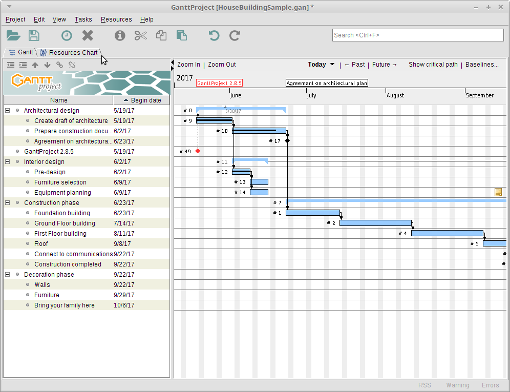 The main window of GanttProject 2.8.5 showing Gantt chart of the sample project.